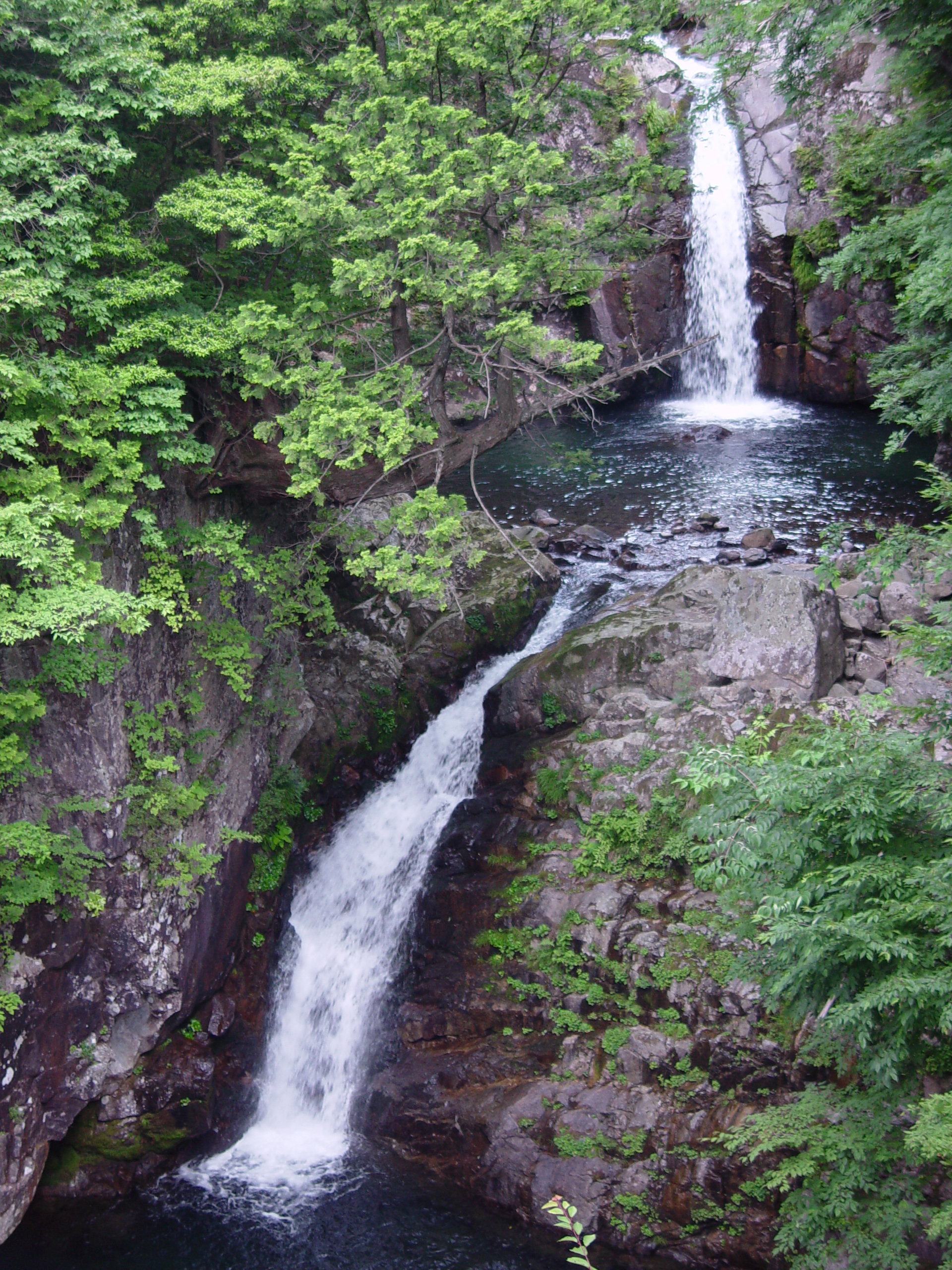 Meoto waterfall in Kuguno, Takayama, Gifu prefecture, Japan.